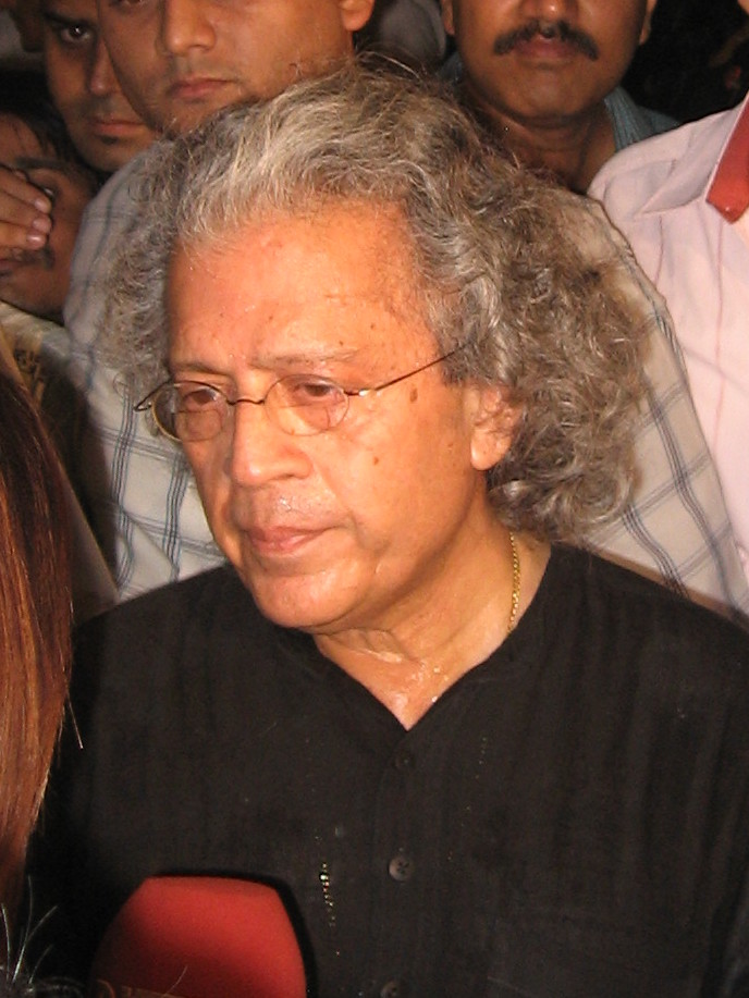 Protest meet at the Gateway of India to mark solidarity with the victims of the November 2008 Mumbai attacks